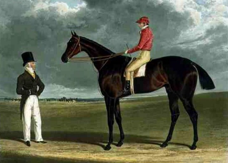 Painting of the British racehorse Birmingham ca. 1830. By John Frederick Herring, Sr. (1795-1865). Painter dead for 147 years.